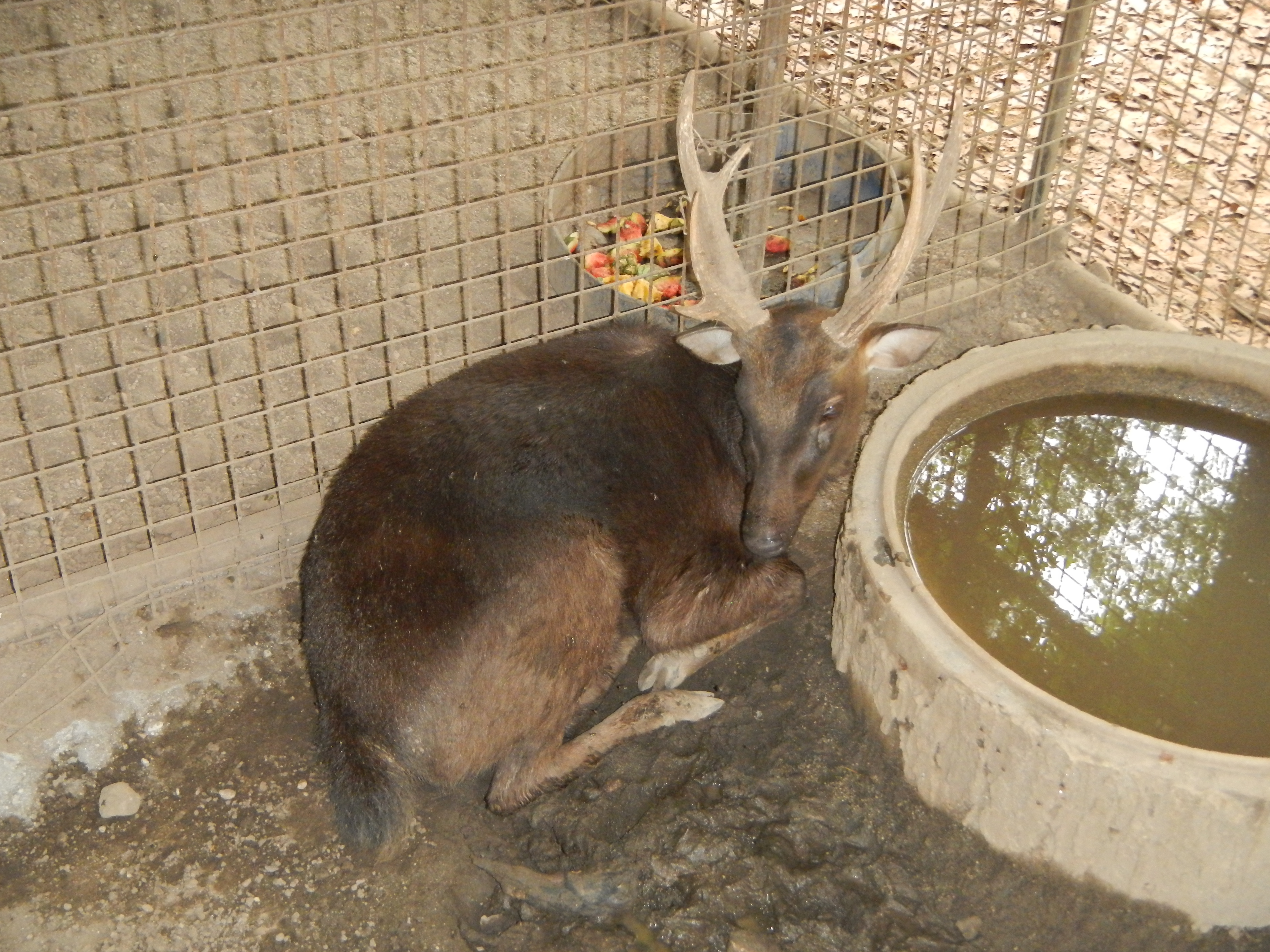 Philippine deer[1][2] The Philippine deer (Rusa marianna), also known as the Philippine sambar or the Philippine Brown Deer, is a species of deer native to the forests and grasslands on most larger islands of the Philippines,. The only major islands where it is not distributed are Negros, Panay, Palawan, Sulu, and the Babuyan and Batanes island groups. It is classified as Vulnerable by the IUCN due to its increasingly fragmented populations as a result of habitat loss and hunting. Ninoy Aquino Parks & Wildlife Center[3] (NAPWC) is a 64.58-hectare (159.6-acre) zoological and botanical garden located in Diliman,[4] Quezon City,[5] the Philippines